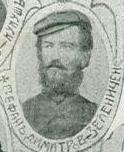 Portrait of IMARO member Stefan Dimitrov from Zeleniche